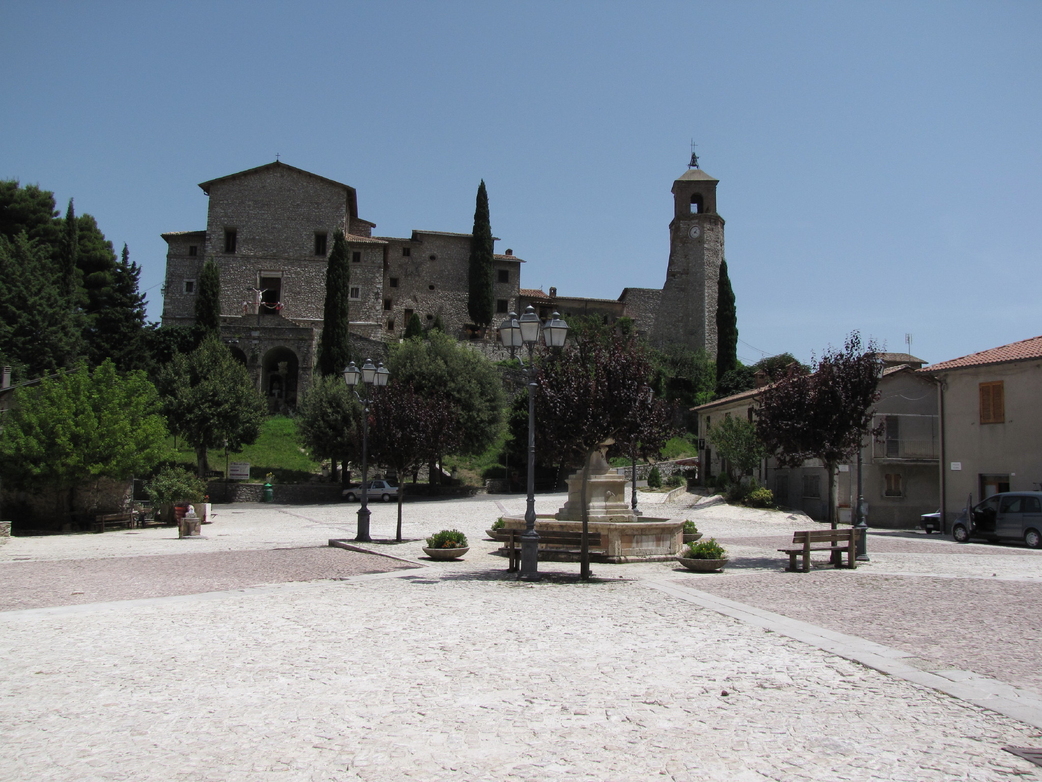 Greccio (Province of Rieti, Lazio, Italy)